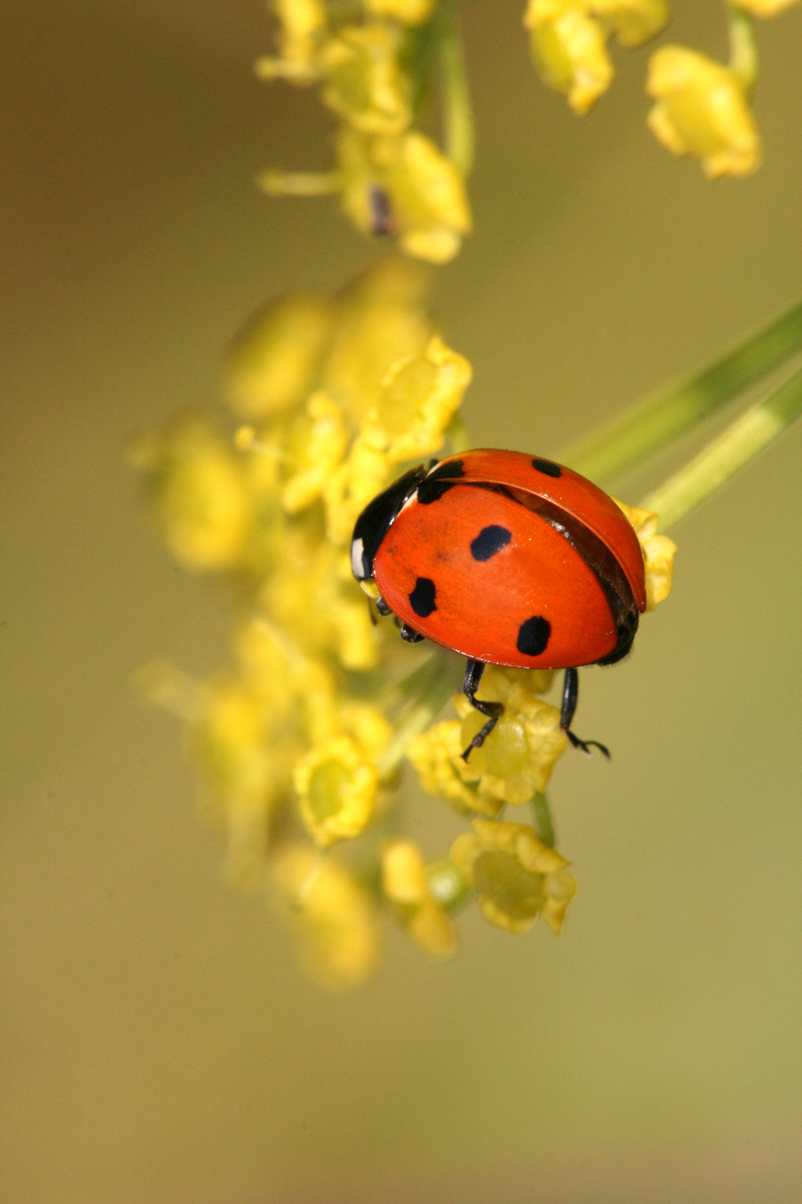 Description: Coccinellidae is a family of beetles, known variously as ladybirds (English English, Australian English, South African English), ladybugs (North American English) or lady beetles (preferred by scientists). The word "lady" in the name is thought to allude to the Virgin Mary in the Roman Catholic faith.